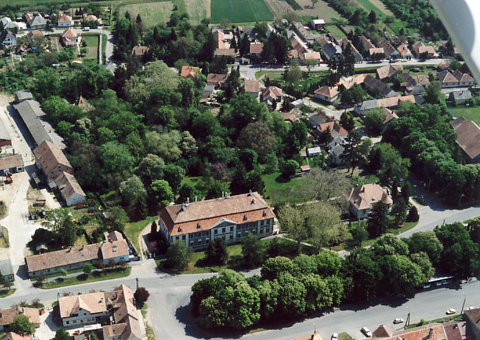 Csepreg - Hungary - Europe